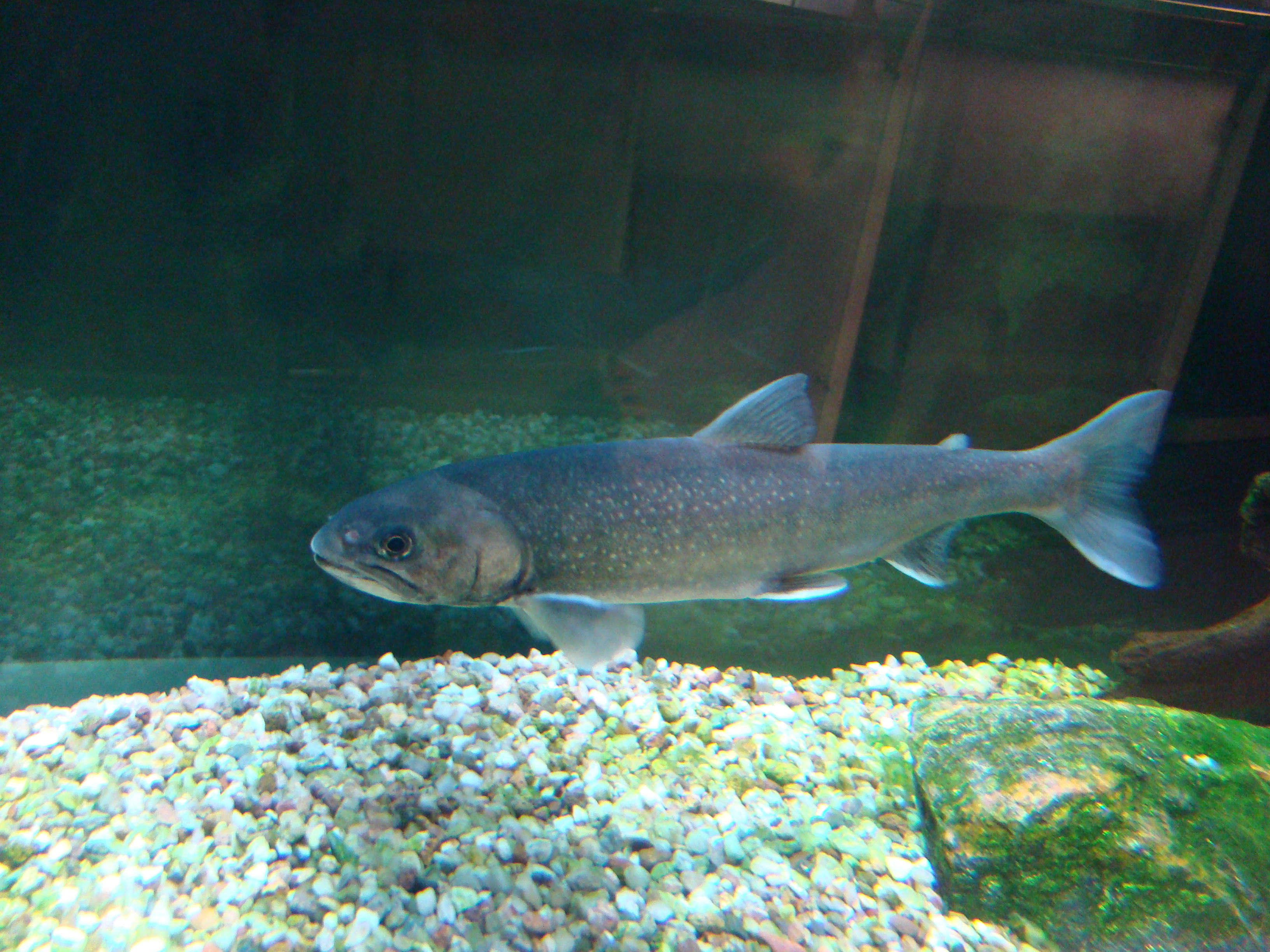 Arctic char in the Arctikum museum, in Rovaniemi, Finland.